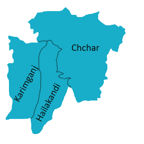 Map of Barak Valley, Assam, India